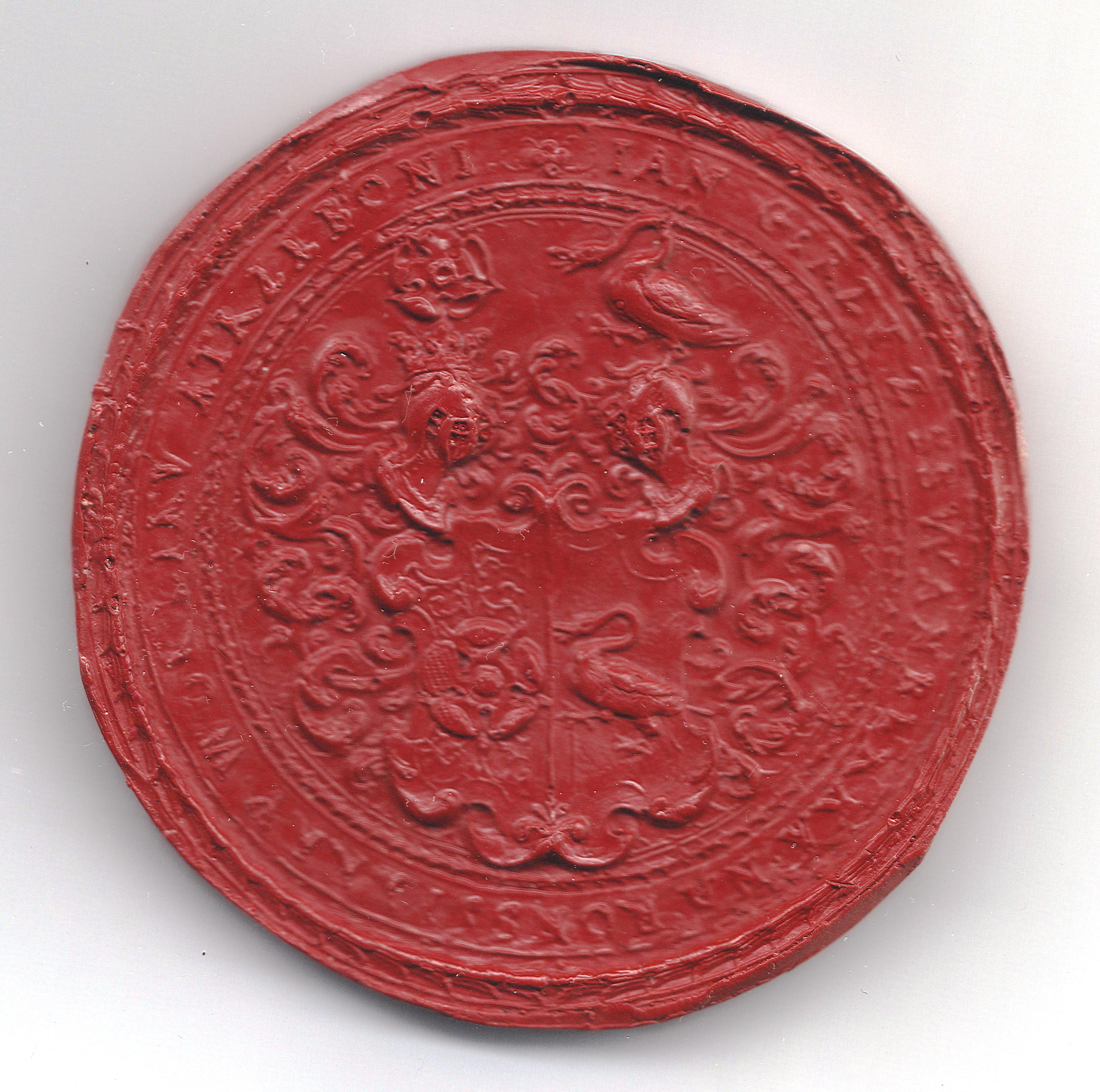 goldsmith Herzig van Bein, Great Seal of John George of Schwanberg, 1614